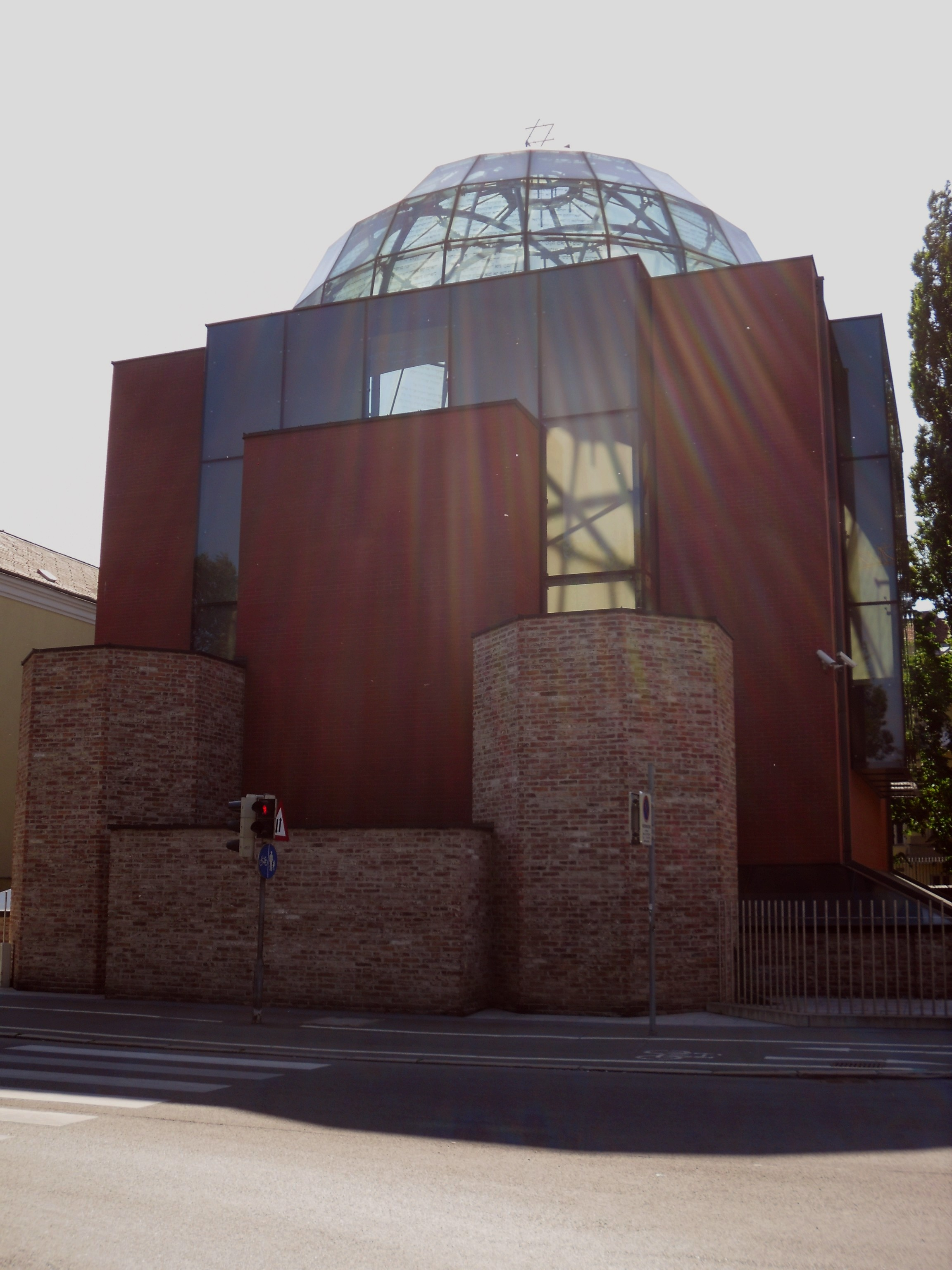 Synagogue in Graz, Styria, Austria